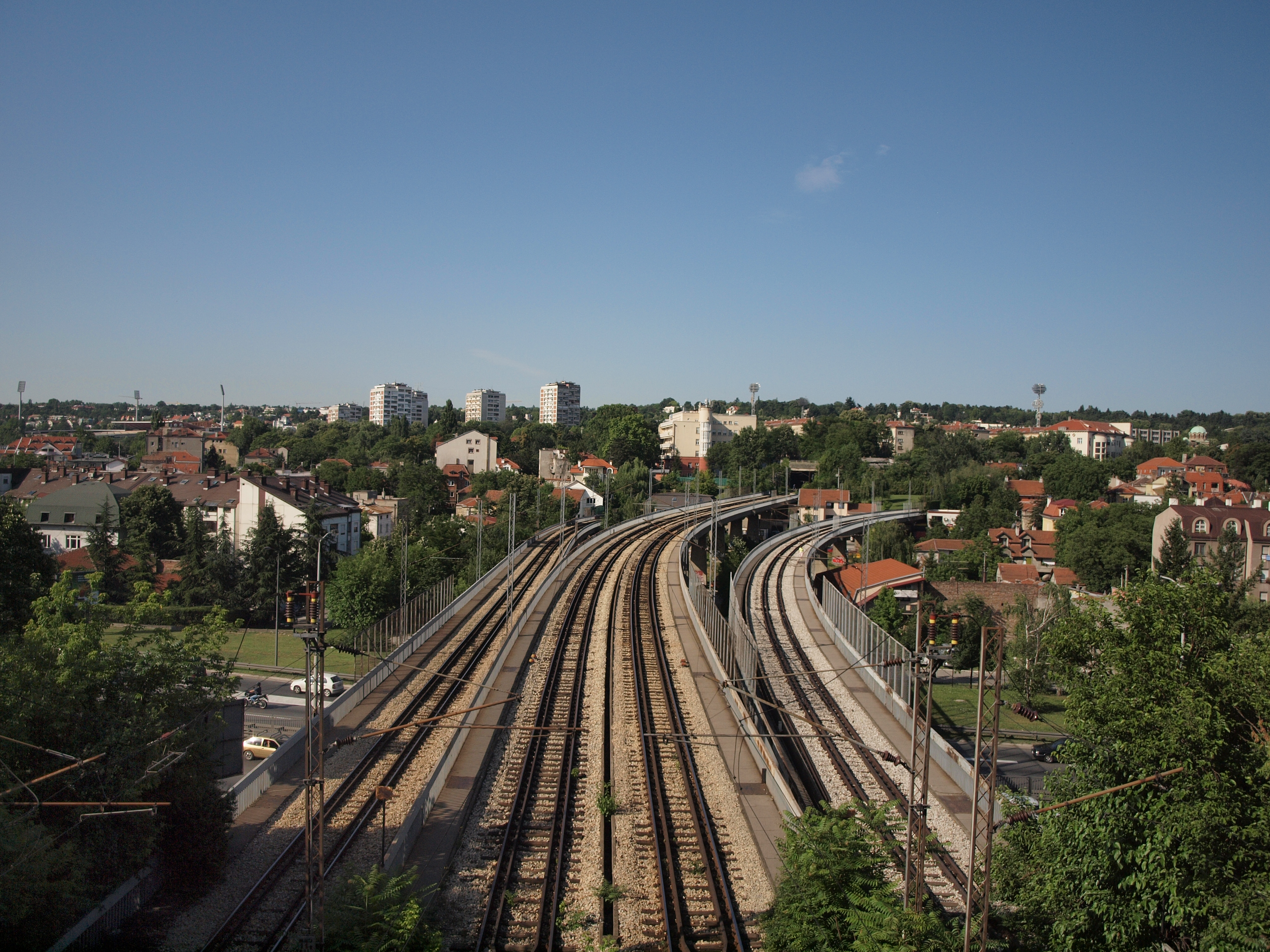 Bridges Railway junction